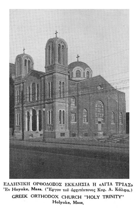 The Holy Trinity Greek Orthodox Church of the South Holyoke neighborhood of Holyoke, Massachusetts, as it appeared a year after its dedication, in 1918. The congregation's origins predate the church, traced back to about 1900. The building's design was drafted by Kyriakos Kalfas of New York City, who based it on the Church of the Pantocrator in Patras, Greece, modifying construction to adapt it to the colder weather of New England, using welded steel plates to construct the domes rather than traditional wooden construction.